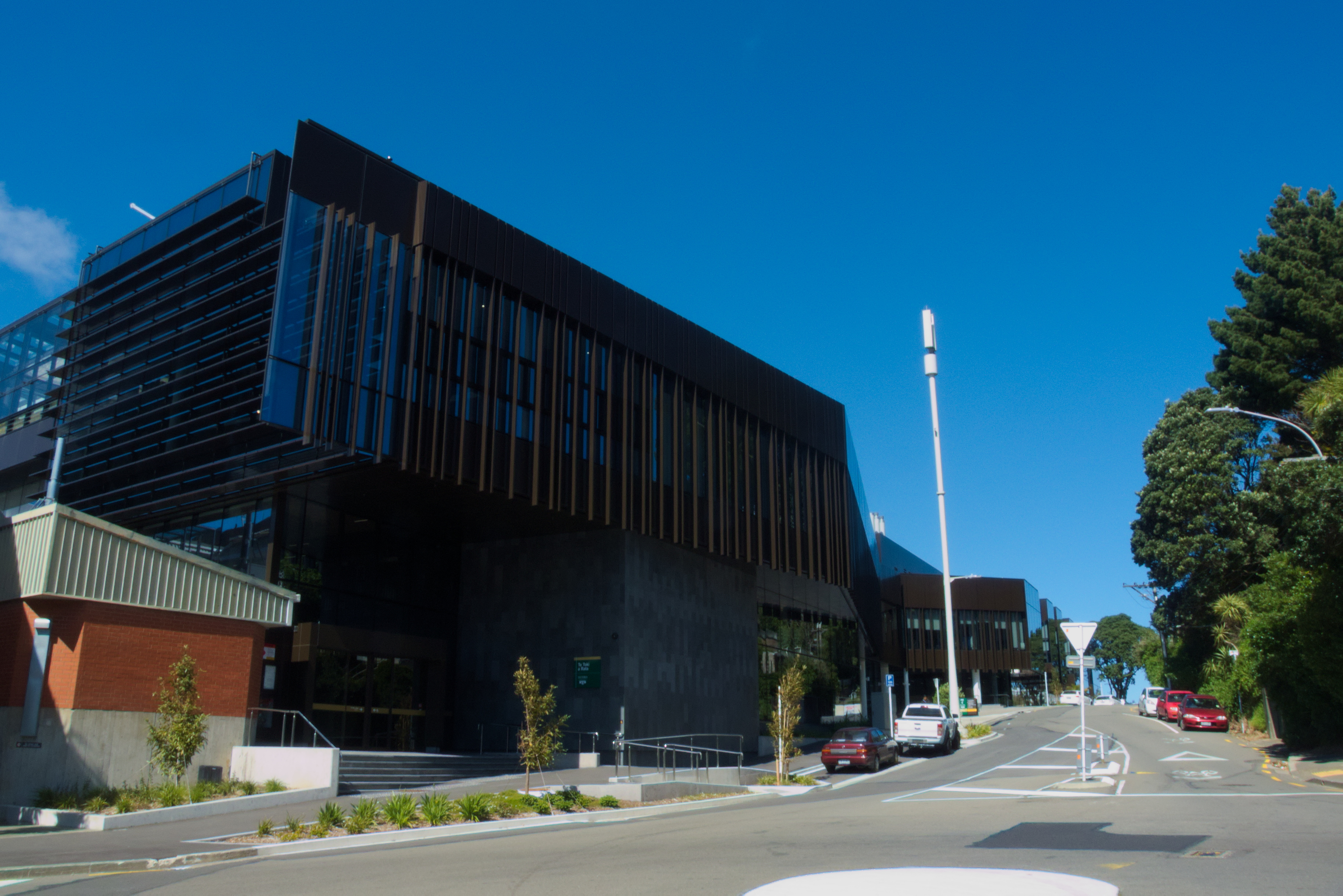 The recently-opened Te Toki a Rata building on the Kelburn campus of the. The building houses the School of Biological Sciences.